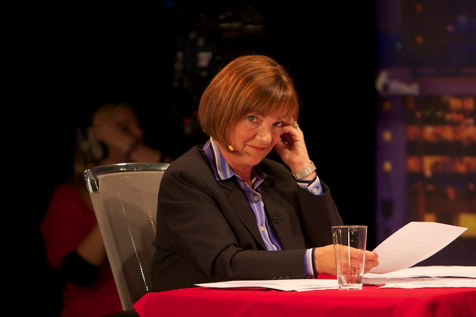 Sheila Copps, 6th Deputy Prime Minister of Canada, MP for Hamilton East (1984-2004)